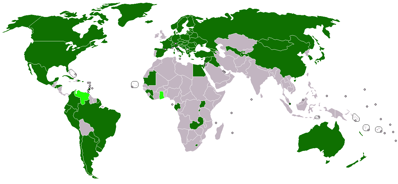 Updates previous map adding Brazil as a contracting party.